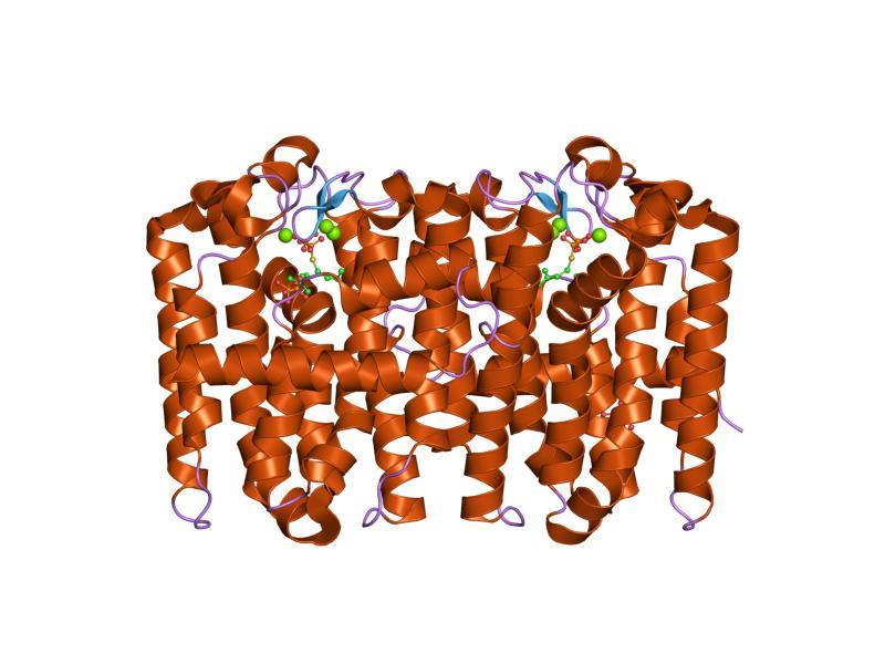 Cartoon representation of the molecular structure of protein registered with 1rqi code.